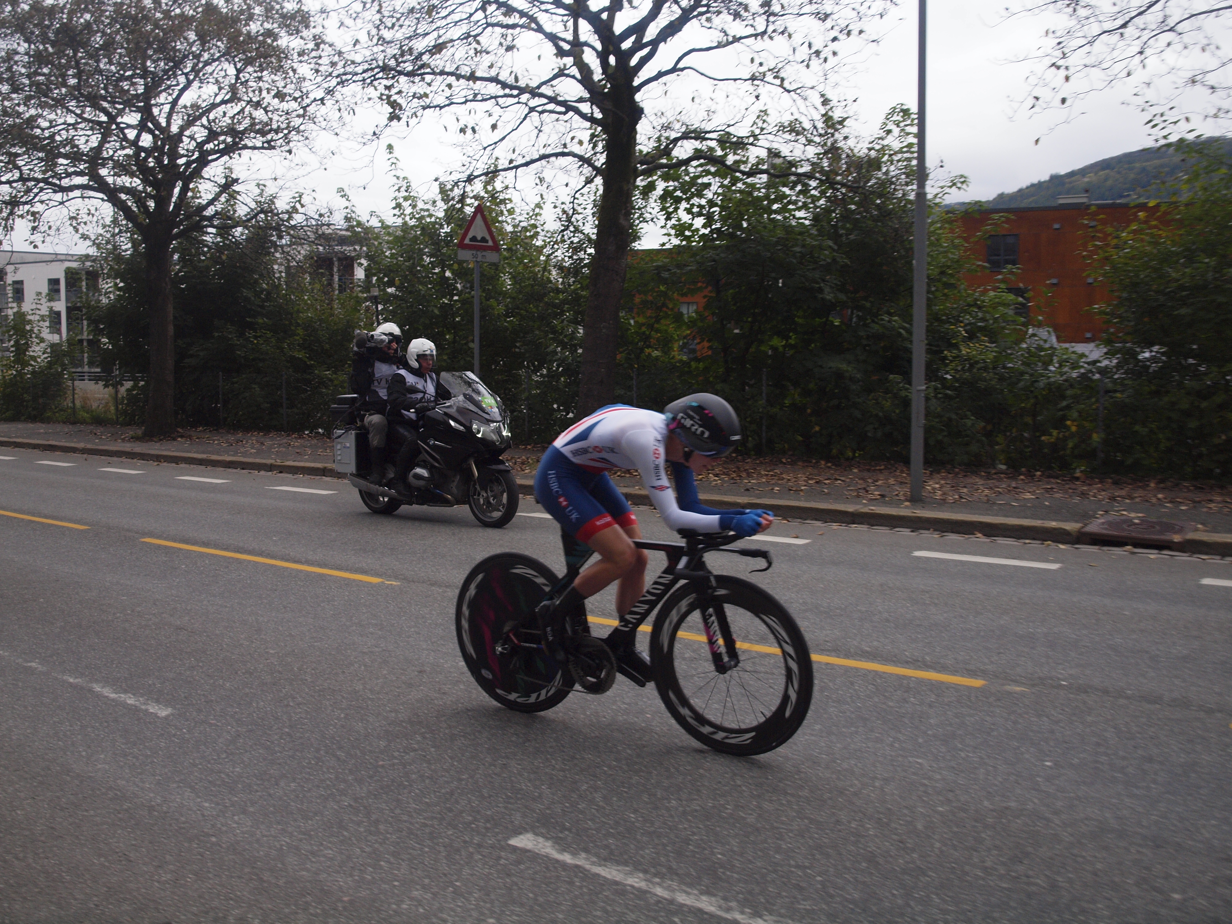 Hannah Barnes at the 2017 UCI World Championships